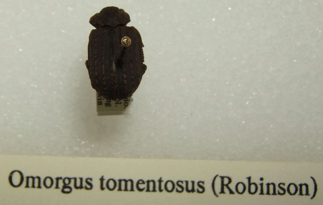 Omorgus tomentosus adult taken by Shawn Hanrahan at the Texas A&M University Insect Collection in College Station, Texas.